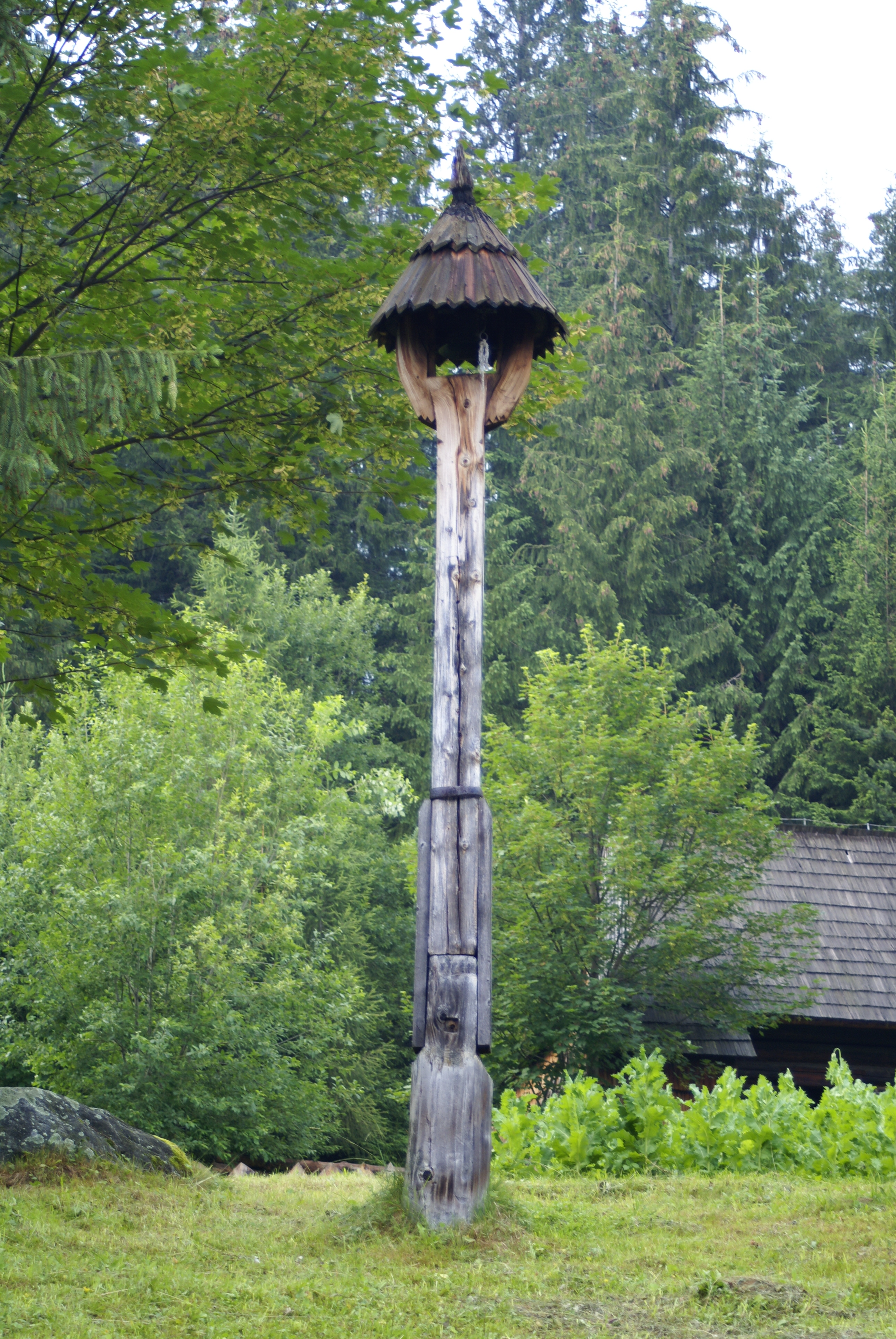 Open air museum of typical slovakian old Orava village, Zuberec, West Tatras, Slovak Republic